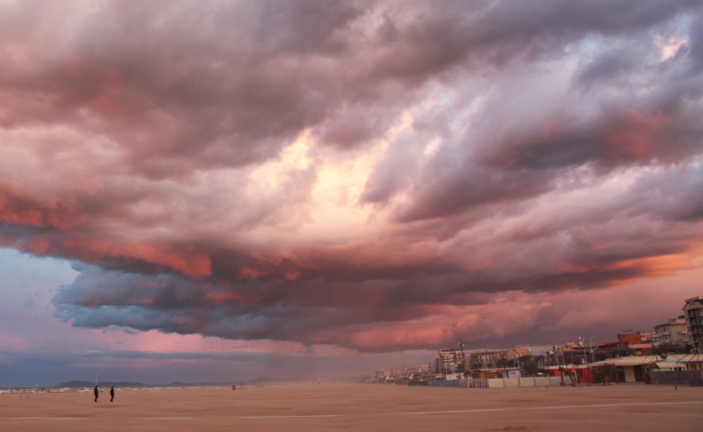 Rimini beach, winter 2008